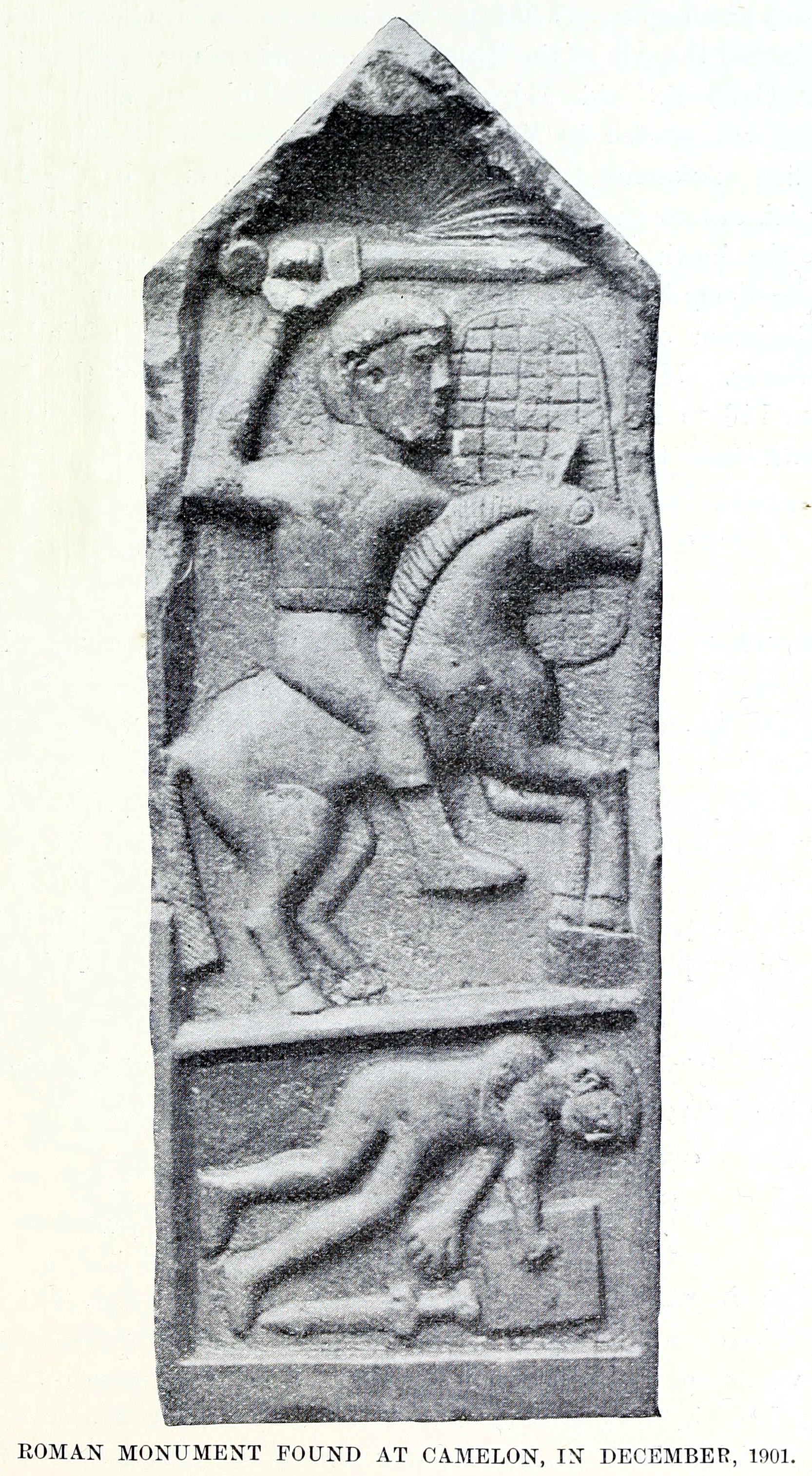 Roman Monument found at Camelon in December 1901